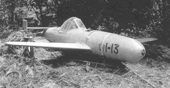 An Ohka Model 11 discovered April 1945 at Yontan airfield, Okinawa. This is the MXY7 Model 11 Number I-13 captured April 1, 1945 at Yontan airfield and now on display at Aerospace Museum, Cosford, according to